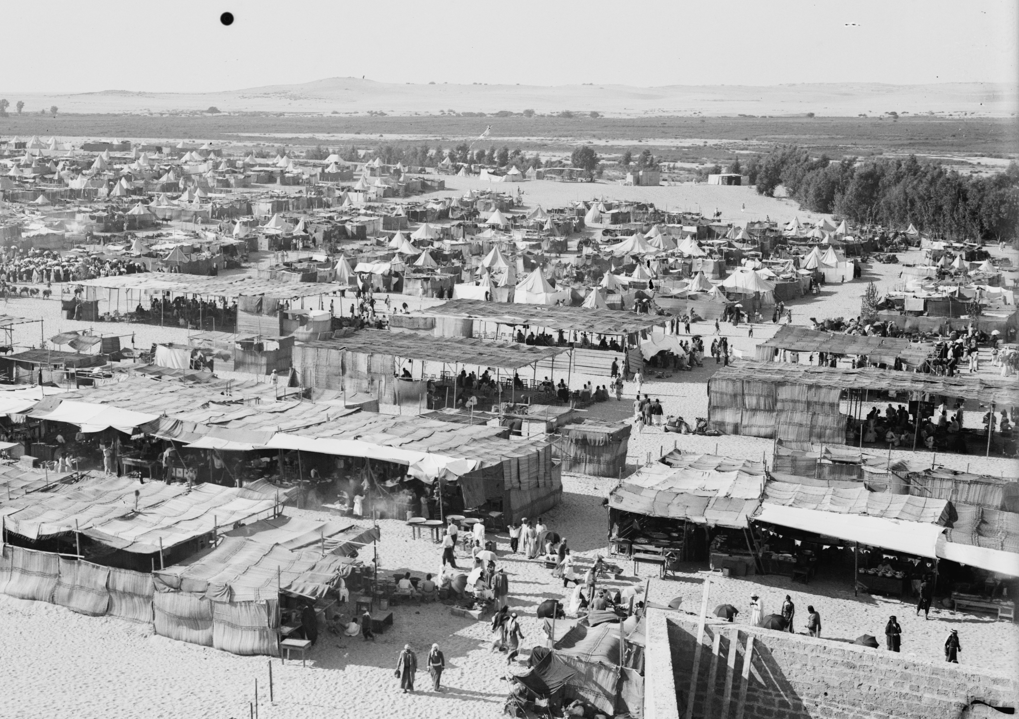 annual Muslim pilgrimage to Nabi Rubin Original information: TITLE: Southern Palestine. Nebi Rubin (the prophet Reuben). A Moslem [i.e., Muslim] yearly pilgrimage in honour of Patriarch Reuben. The Nebi Rubin pilgrim camp reminiscent of Israel's camp in the desert. CALL NUMBER: LC-M32- 3759[P&P] REPRODUCTION NUMBER: LC-DIG-matpc-02905 (digital file from original photo) RIGHTS INFORMATION: No known restrictions on publication. MEDIUM: 1 negative : glass, dry plate ; 5 x 7 in. CREATED/PUBLISHED: [approximately 1920 to 1933] CREATOR:American Colony (Jerusalem). Photo Dept., photographer. NOTES:Title from: Catalogue of photographs & lantern slides ... [1936?]. Date from Matson LOT cards. Gift; Episcopal Home; 1978. SUBJECTS:Israel. FORMAT:Dry plate negatives. PART OF: G. Eric and Edith Matson Photograph Collection REPOSITORY: Library of Congress Prints and Photographs Division Washington, D.C. 20540 USA DIGITAL ID: (digital file from original photo) matpc 02905 CONTROL #: mpc2004002238/PP